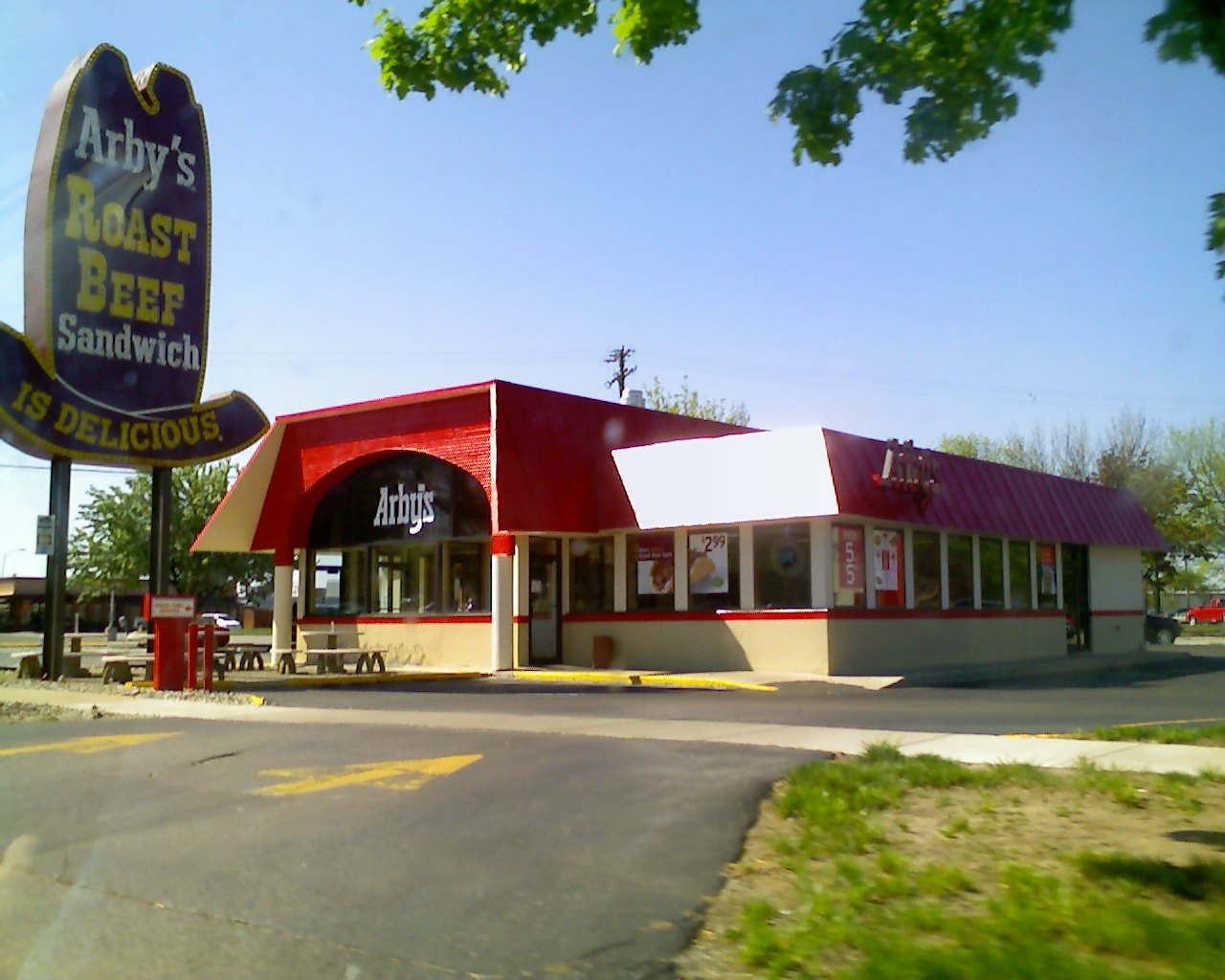 An Arby's fast food franchise in Midland. Taken on a Verizon Wireless RAZR V3c on May 8, 2006. The "Roast Beef" sign seen on the left is not common to most Arby's locations. Public Domain image, but the Arby's logo is copyrighted, and is contained in the image.